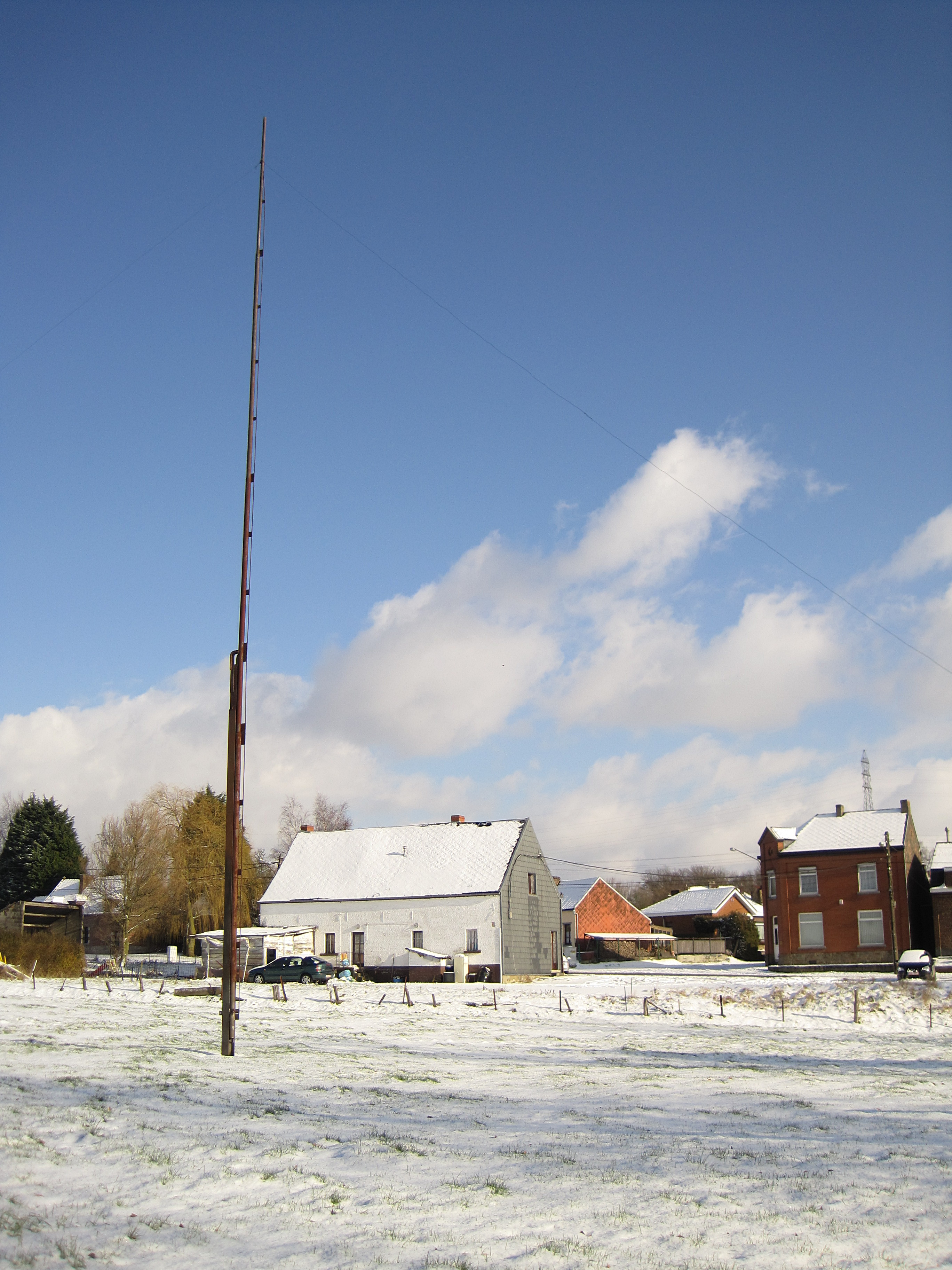 Havré (Belgium), rue Victor Baudour. - Popinjay mast for archery at Popinjay of the "La Perche" café (XIXth century).